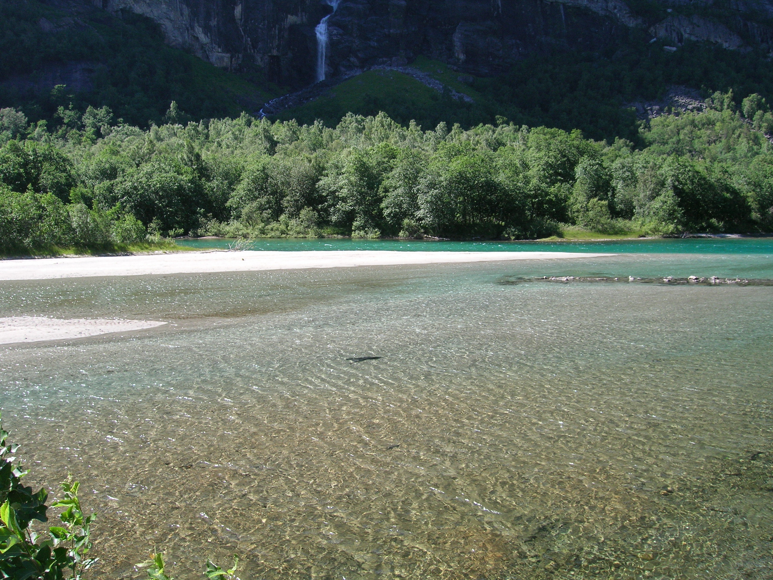 The Rauma River in Romsdal, Norway